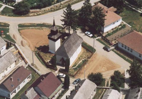 Aerial photo of the Calvinist church and belfry of Túrricse, Hungary This is a photo of a monument in Hungary, Identifier: 8515